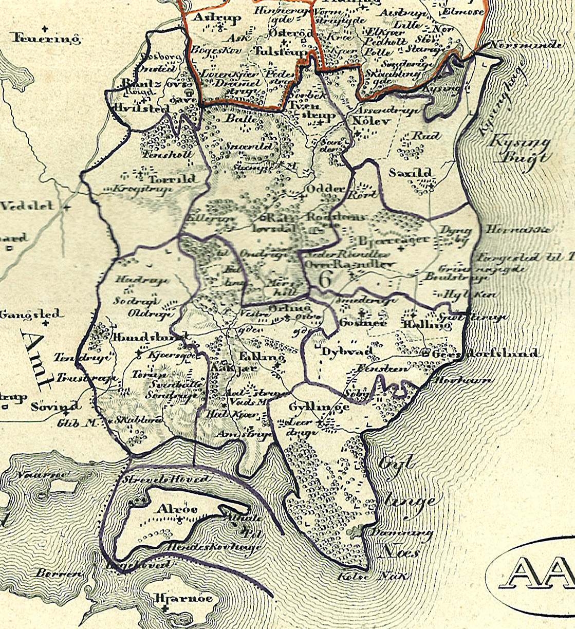 Hads Herred in Århus Amt 1826, Denmark.